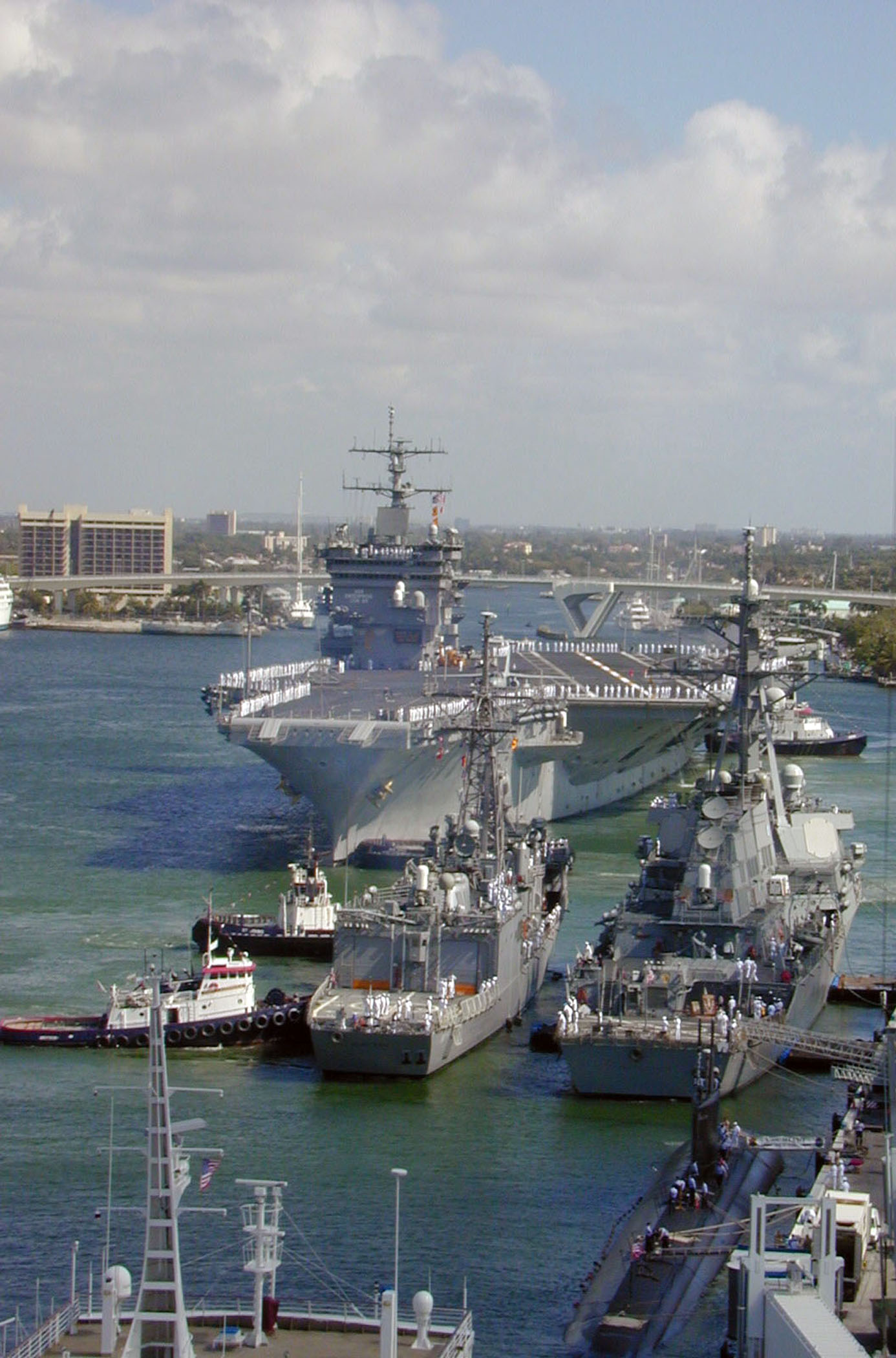 040426-N-2038L-001 Port Everglades, Fla. (Apr. 26, 2004) - The crew assigned to the aircraft carrier USS Enterprise (CVN 65) "man the rails" as they prepare to moor at Port Everglades, Fla., for Fleet Week 2004. Shown also are the Oliver Hazard Perry-class guided missile frigate USS Simpson (FFG 56), center left, the Arleigh Burke-class guided missile destroyer USS Mitscher (DDG 57), center right, and the Los Angeles-class attack submarine USS Miami (SSN 755), lower right.